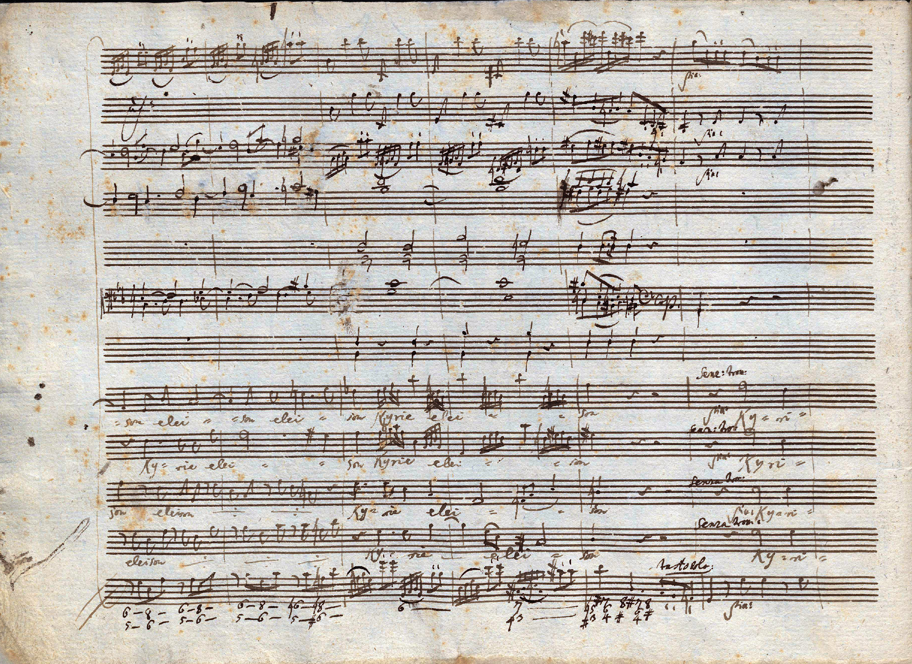 Page 4 of Mozart's autograph of his Great Mass in C minor, K. 427 (K.417a).